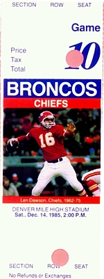 A ticket for a December 14, 1985 NFL game featuring the Kansas City Chiefs versus the Denver Broncos at Denver Mile High Stadium.